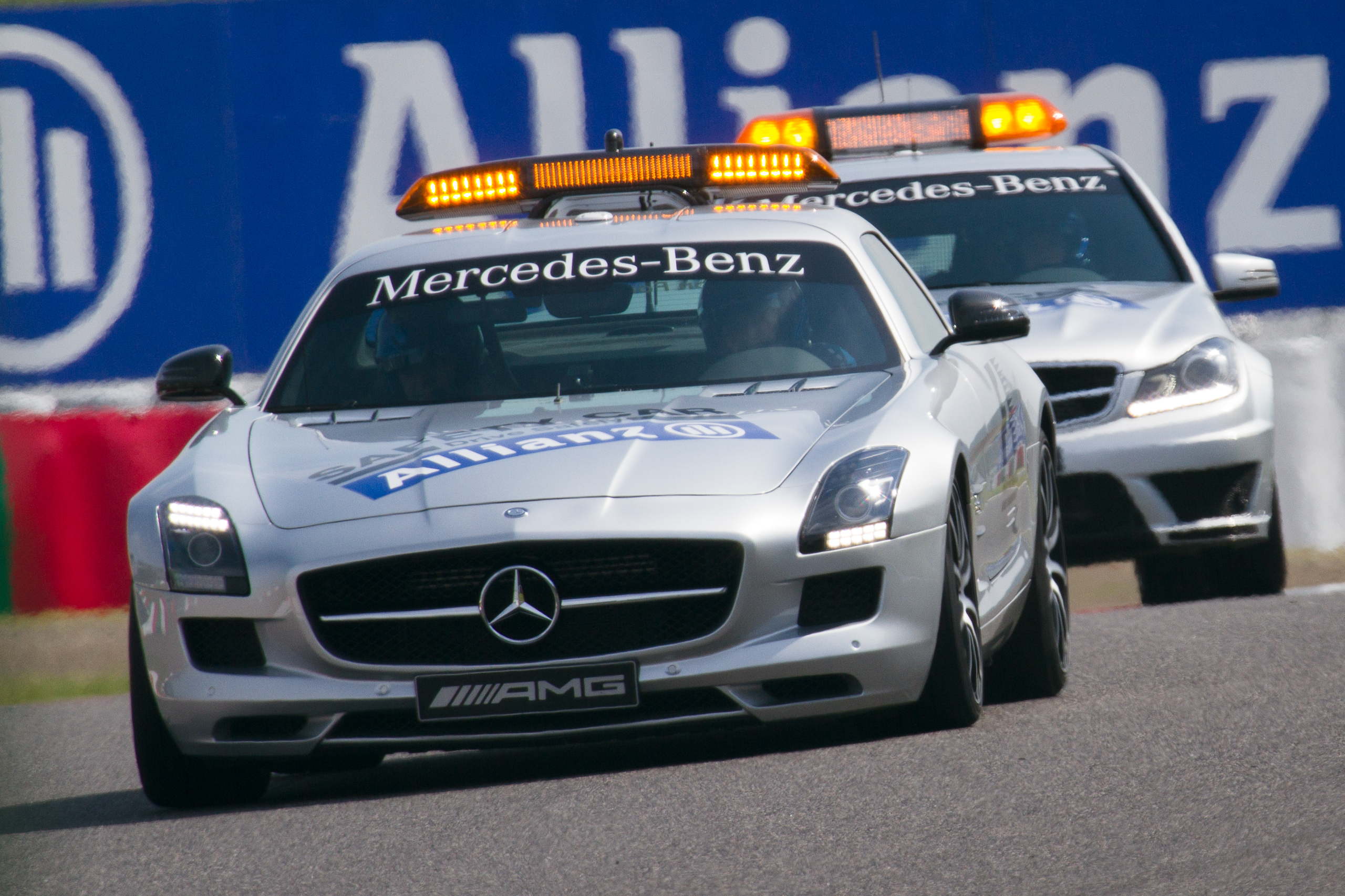 Formula One 2012 Rd.15 Japanese GP: Mercedes-Benz Formula One safety car and medical car